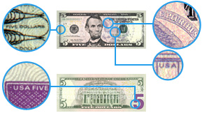 5 US Dollar banknote (entered circulation on March 13, 2008), Microprinting parts.